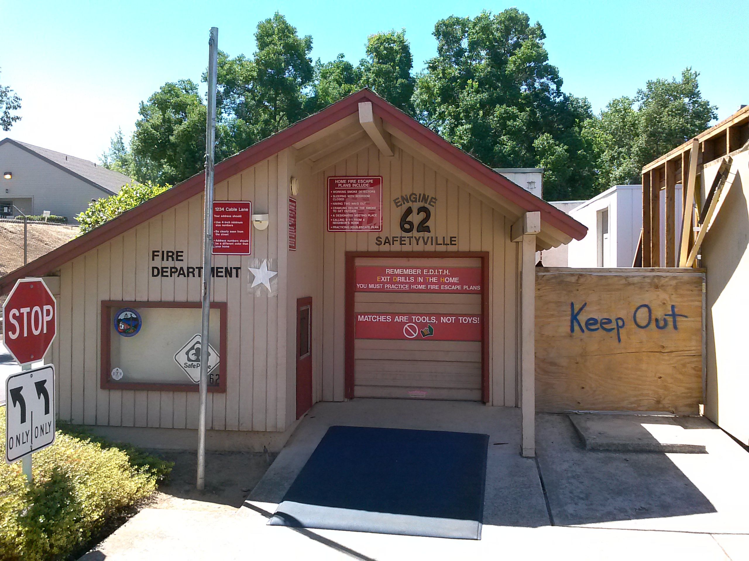 Image of the small version of the Sacramento Fire Department in Safetyville, USA in Sacramento, California